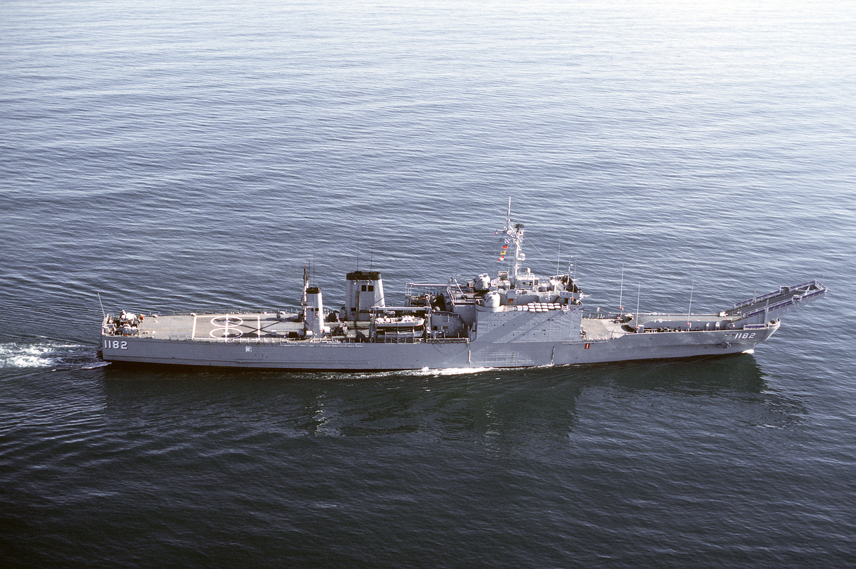 Aerial starboard beam view of the Newport class tank landing ship USS FRESNO (LST-1182) underway.